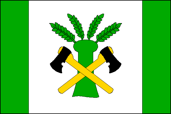 Municipal flag of Vrbka village, Kroměříž District, Czech Republic.